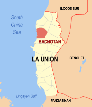 Map of La Union showing the location of Bacnotan